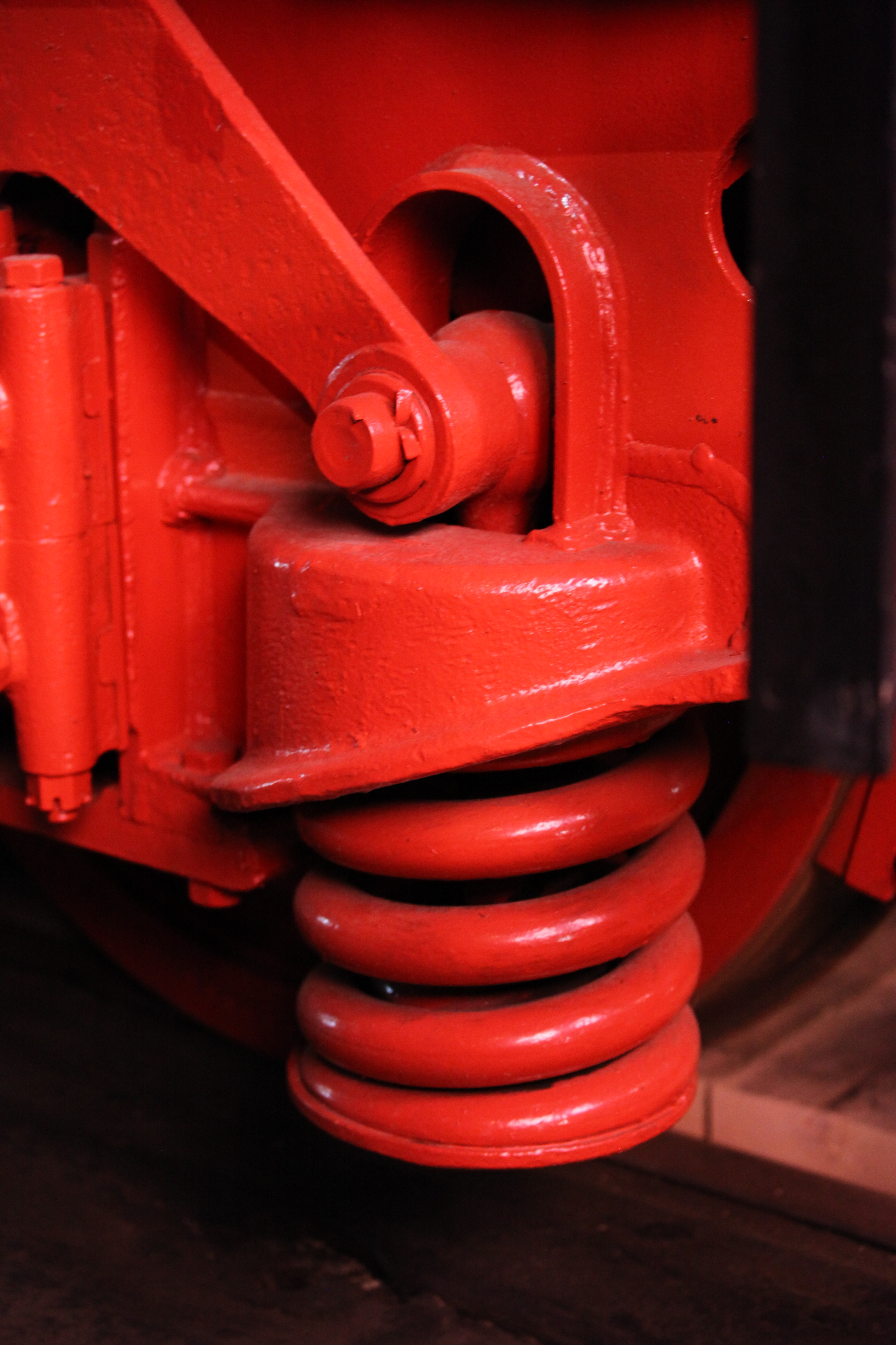 Coil spring of a steam locomotive taken at Deutsches Dampflokomotiv Museum in Neuenmarkt-Wirsberg' / Upper Franconia (a region of Bavaria)